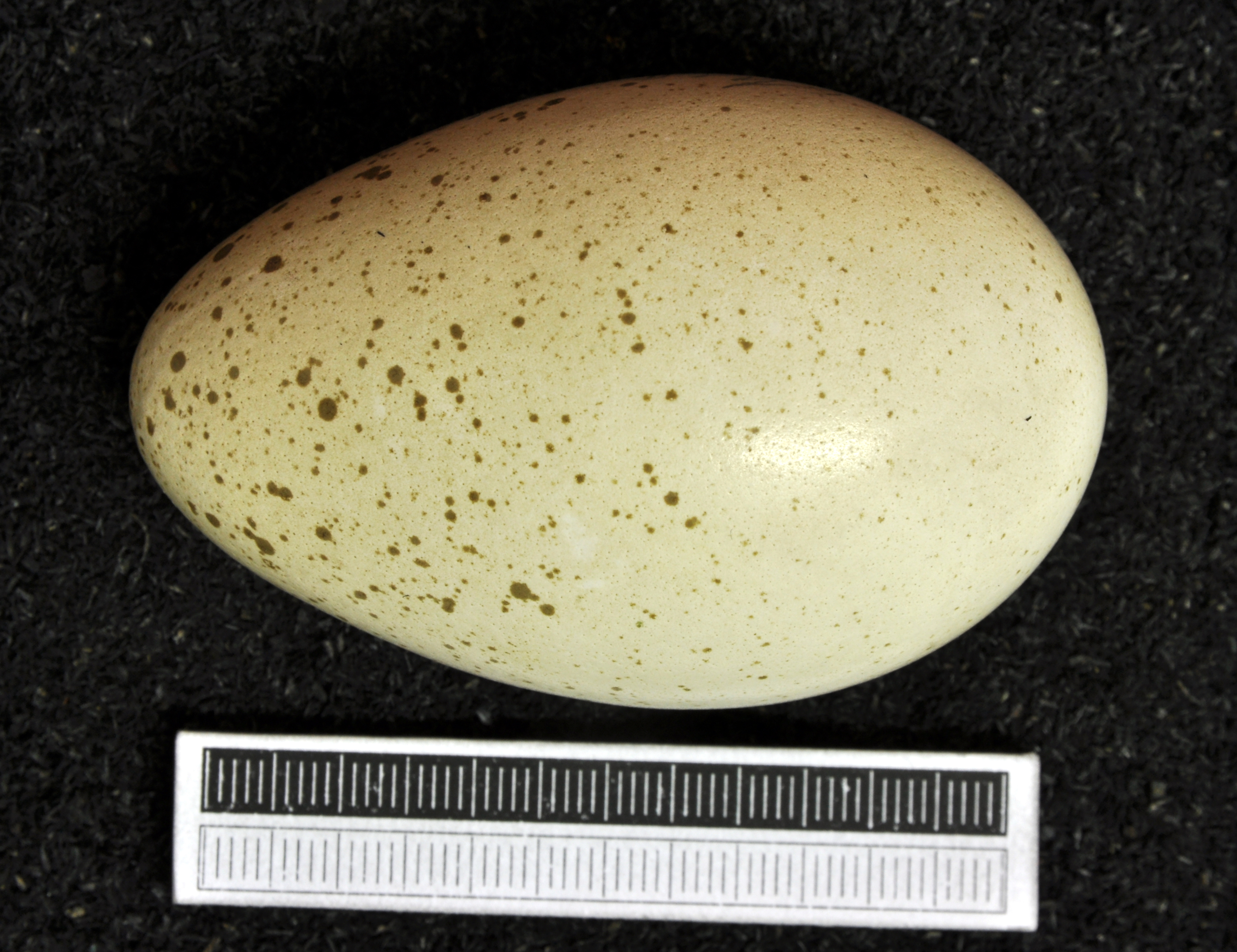 Himalayan snowcock Tetraogallus himalayensis , egg, Coll. Museum Wiesbaden